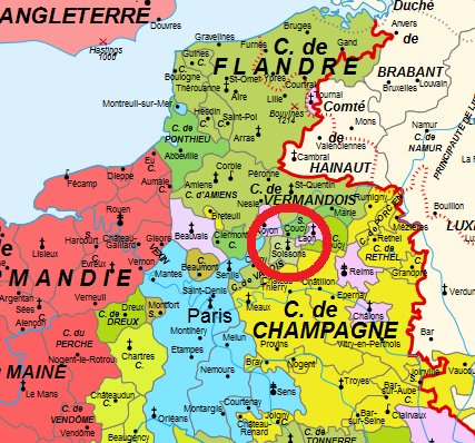 Map of the France in 1180